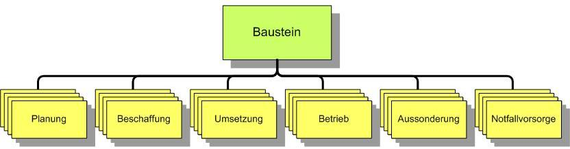 IT Baseline Protection Catalogues: Elements of component lifecycles